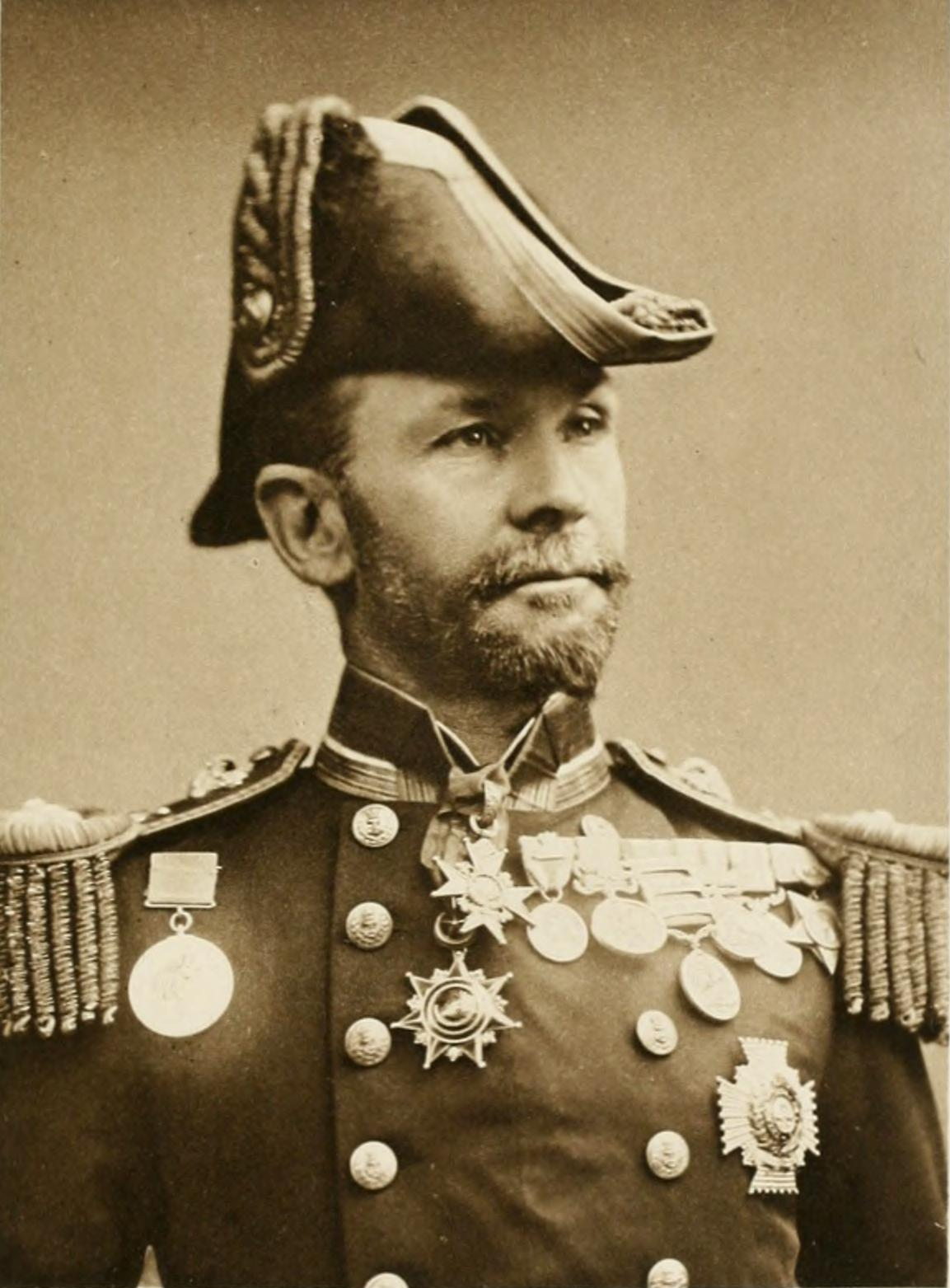 Vice-Admiral Sir Edward Hobart Seymour